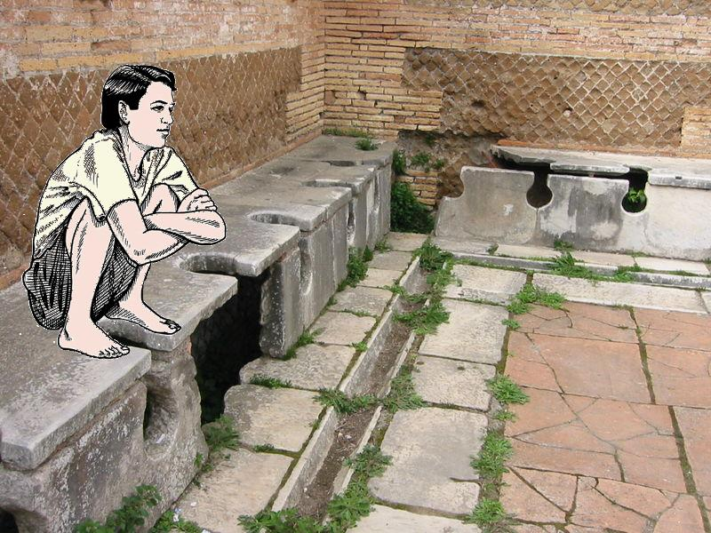 Picture of squatter superimposed on Roman public toilets